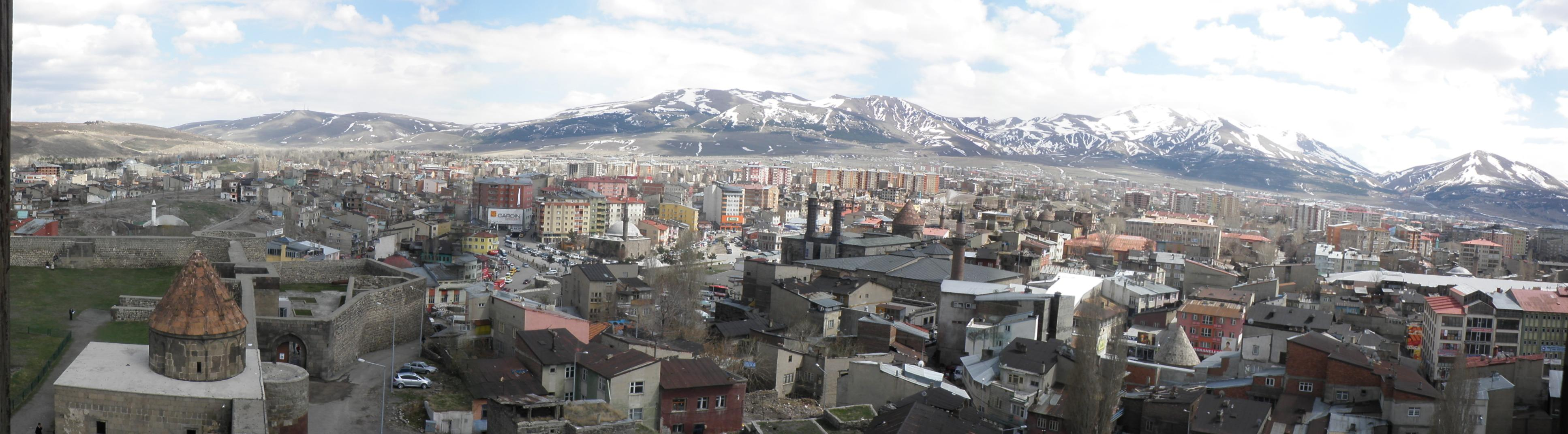 Panorama of Erzurum from Castle of Erzurum